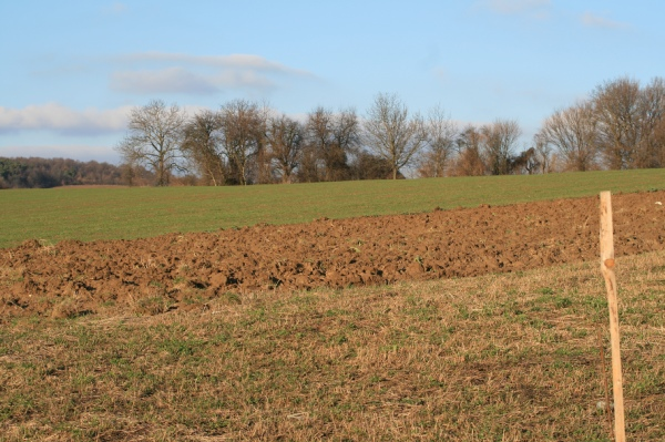 poľnohospodárske pole na území Slovenska, v popredí strnisko, v strede oračina, v pozadí porast oziminy; en: agriculture field in Slovakia, in the front stubble, in the middle ground, in the background growth of the winter corn